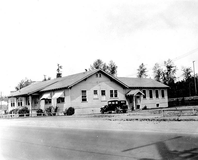 Subjects (LCSH): University of Washington. College of Fisheries; University of Washington--Buildings; College buildings--Washington (State)--Seattle